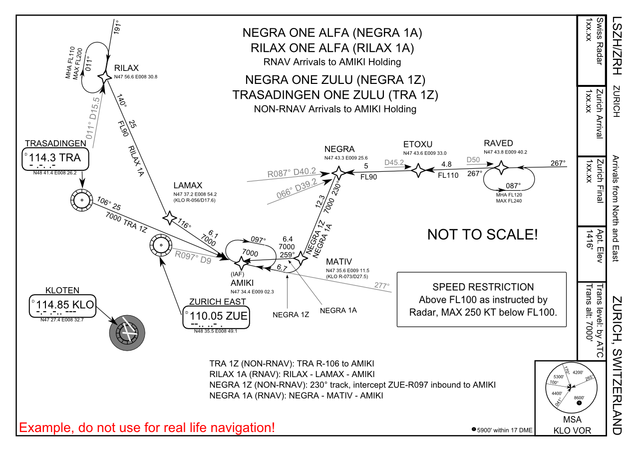 STAR-Chart (Standard Terminal Arrival Route) for LSZH (Zurich-Airport), Arrivals from North and North-East. It's only an example, i don't know if the routes are the same as in real life. The Navaids, Waypoints and Holding-Patterns may be the real ones, for a copy of a real Jeppessen chart of the shown STAR.